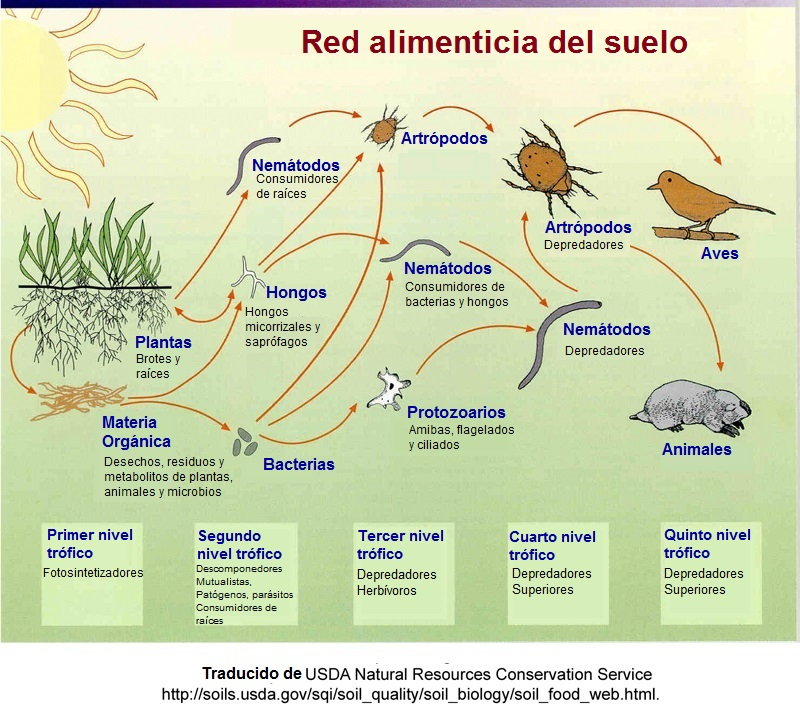 ilustración de una red alimenticia del suelo. Traducción al español de su versión original en inglés cortesía de la USDA